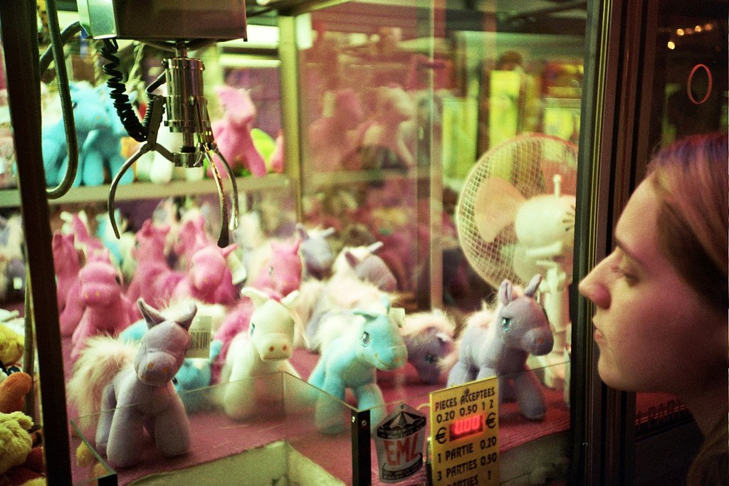 This photo is of a claw crane game machine containing unicorn plushes in Trouville, France, Sept 2011. The small french town's promenade is home to many video games of chance like this one throughout each summer.